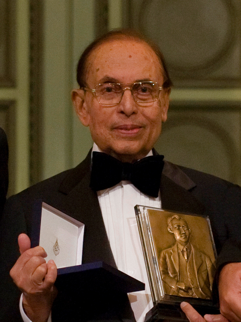 Professor Ananda S. Prasad (Photographer attached to the Prime Minister of the Kingdom of Thailand : Peerapat Wimolrungkarat / พีรพัฒน์ วิมลรังครัตน์) @is50mm